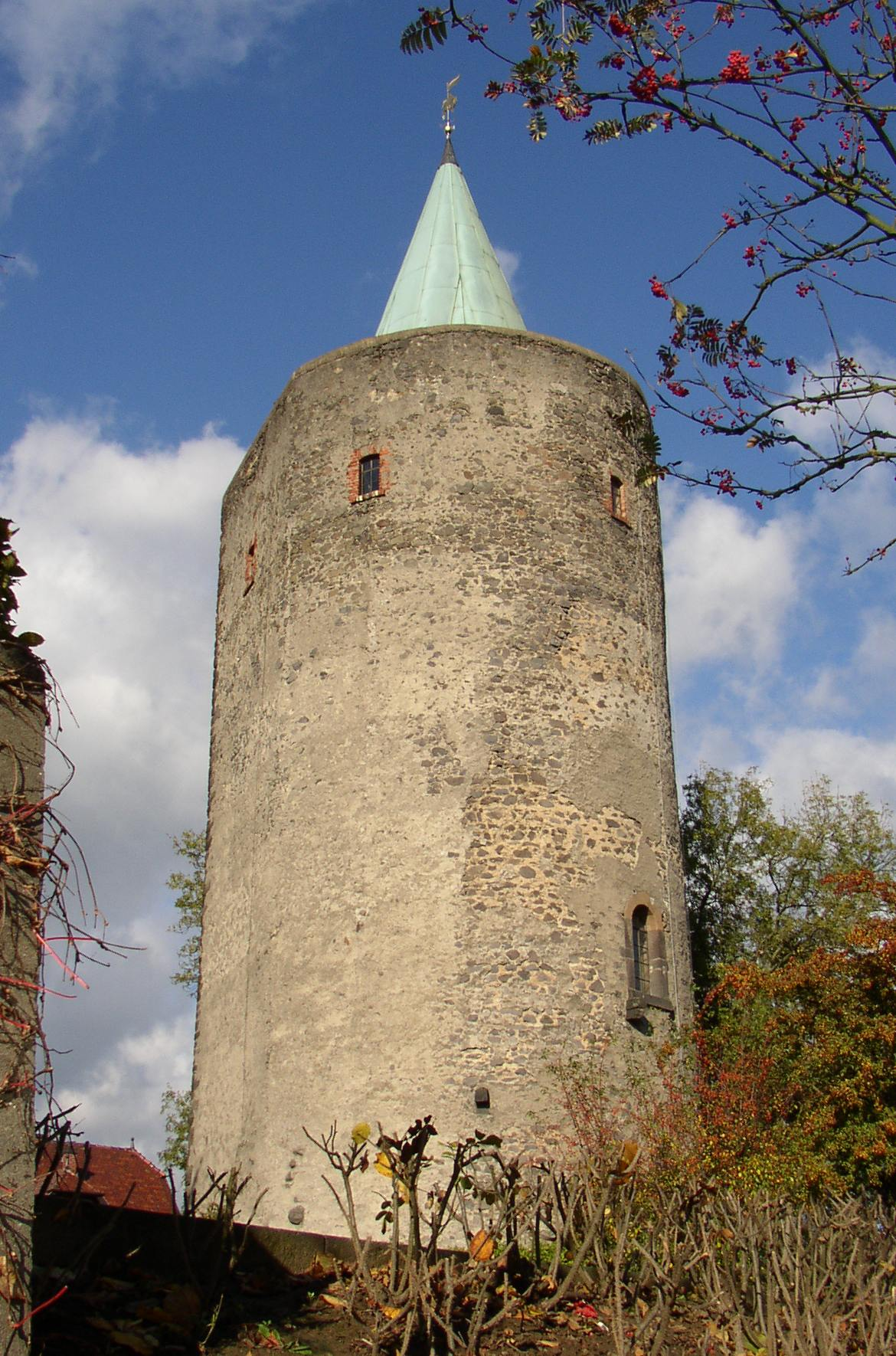 Tower in Grünberg in Hesse, Germany